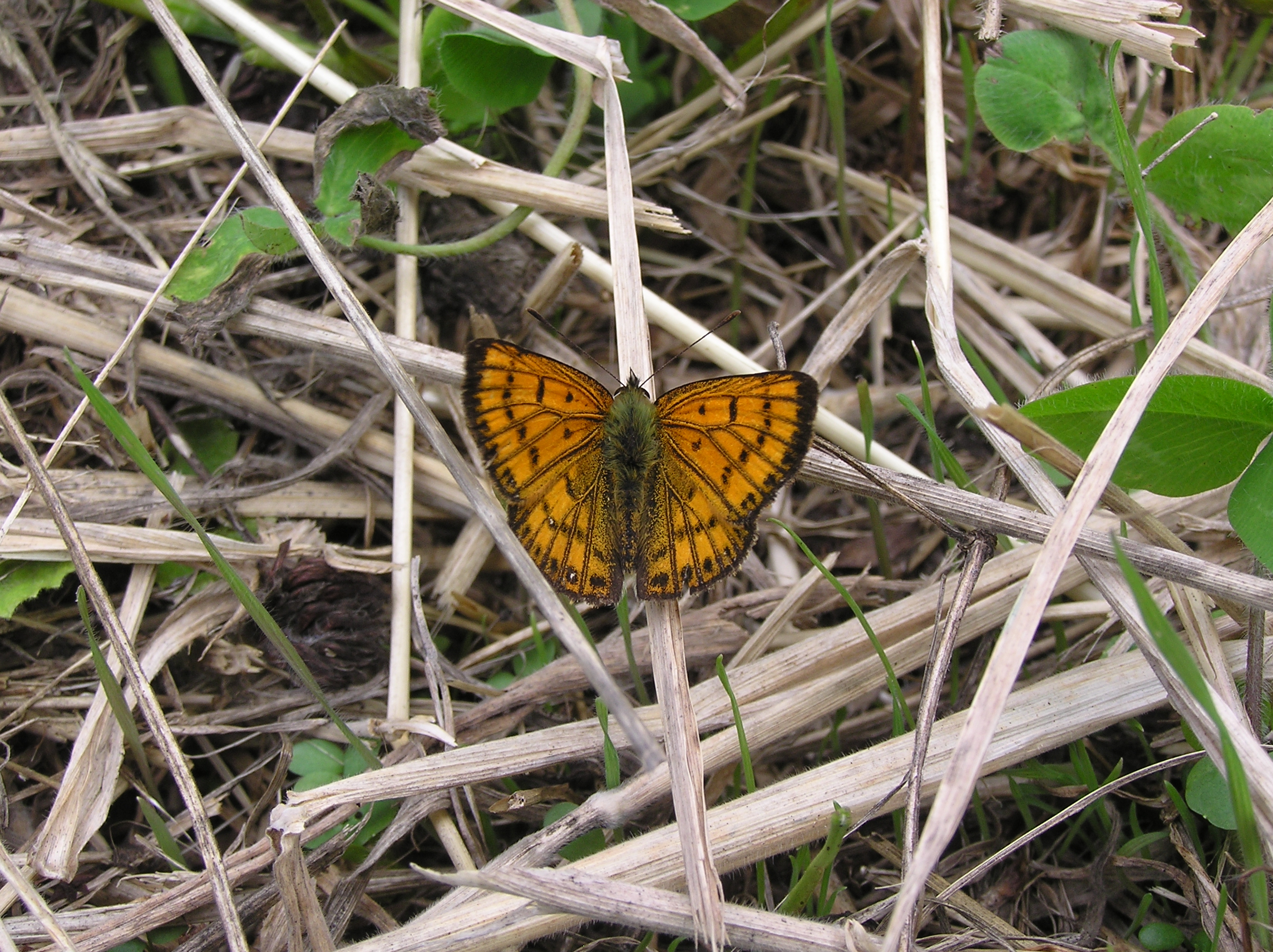 Common Copper butterfly, male. Wellington, New Zealand. Māori: Pepe Para Riki